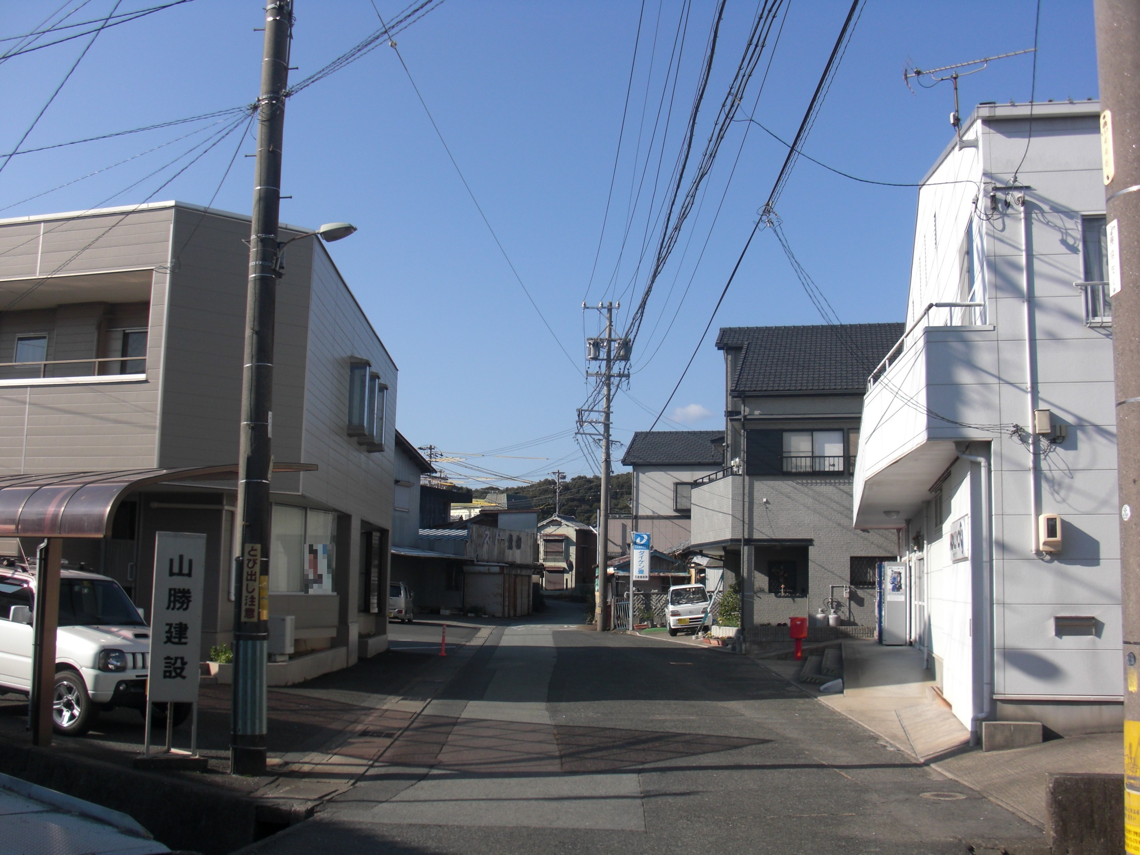 This is a landscape of Isobecho-Kawanabe, Shima city, Mie prefecture, Japan. Formal address of this area is Isobecho-Erihara.